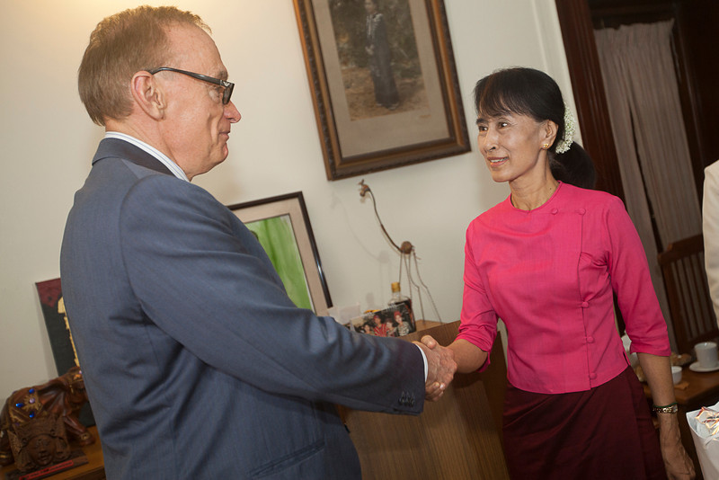 Australian Foreign Minister Bob Carr meets Myanmar parliamentarian Daw Aung San Suu Kyi inside her home on June 6, 2012.